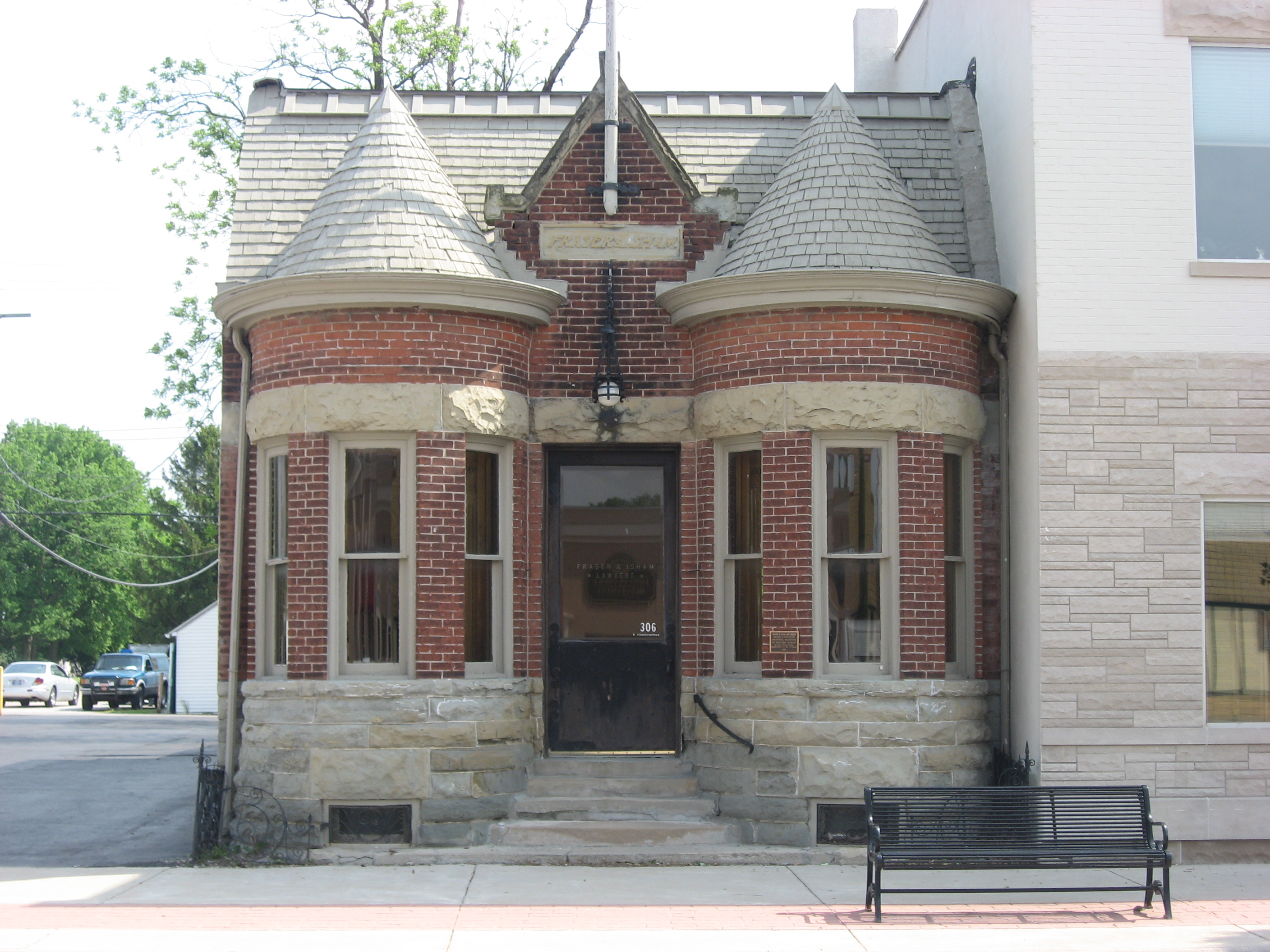 Front of the Fraser & Isham Law Office, located at 306 E. Fifth Street in Fowler, Indiana, United States. Built in 1896, it is listed on the National Register of Historic Places.